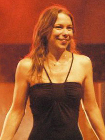 Singer Lhasa de Sela in concert in Stuttgart, Sommerfestival der Kulturen, 2005-07-21